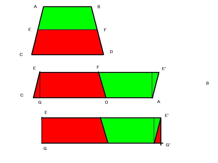 直角梯形面积 Area of trapezoid